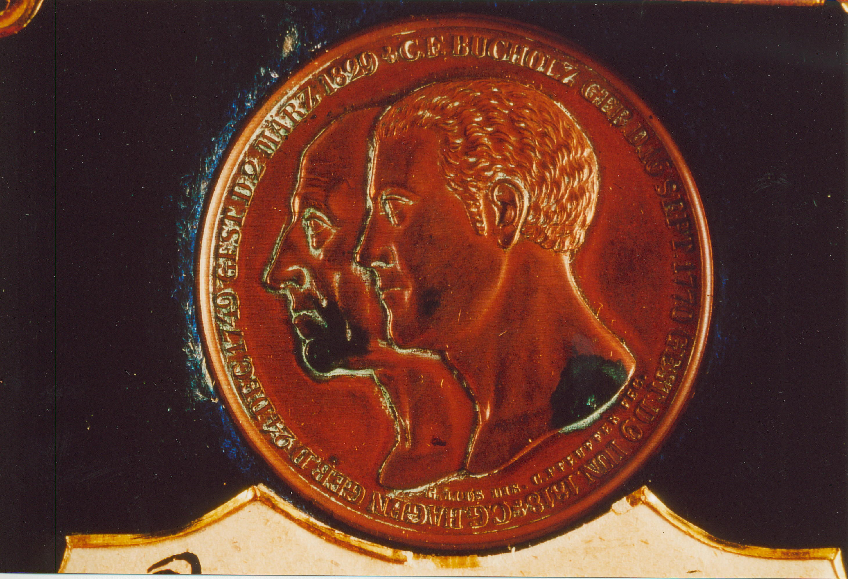 Coin to Hagen-Bucholz-Stiftung 1829 - Hagen was Prof. at the University of Koenigsberg-Prussia, Chemist and Pharmacist